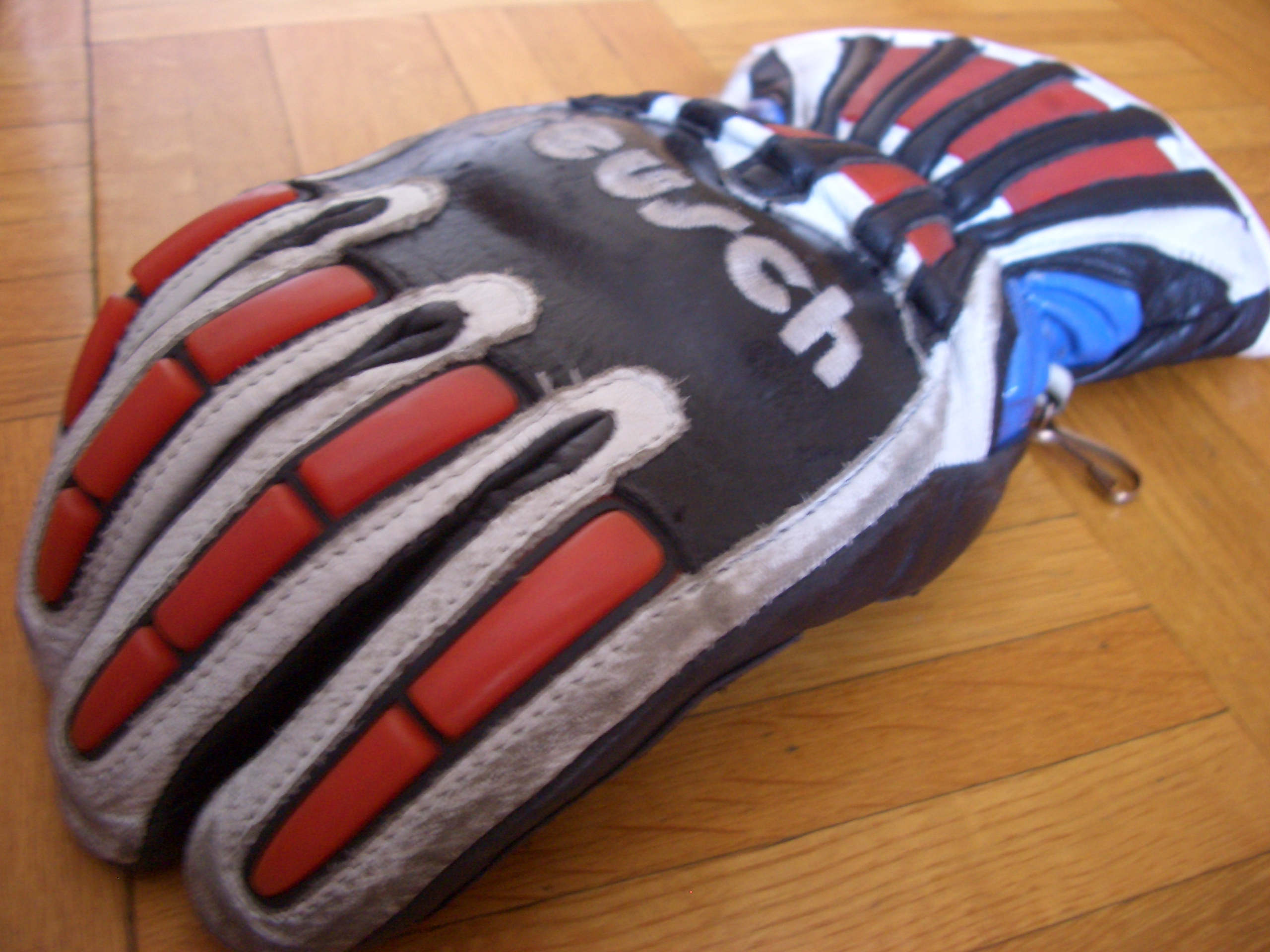 The all-time classic goalkeeper gloves by Reusch manufacturer.